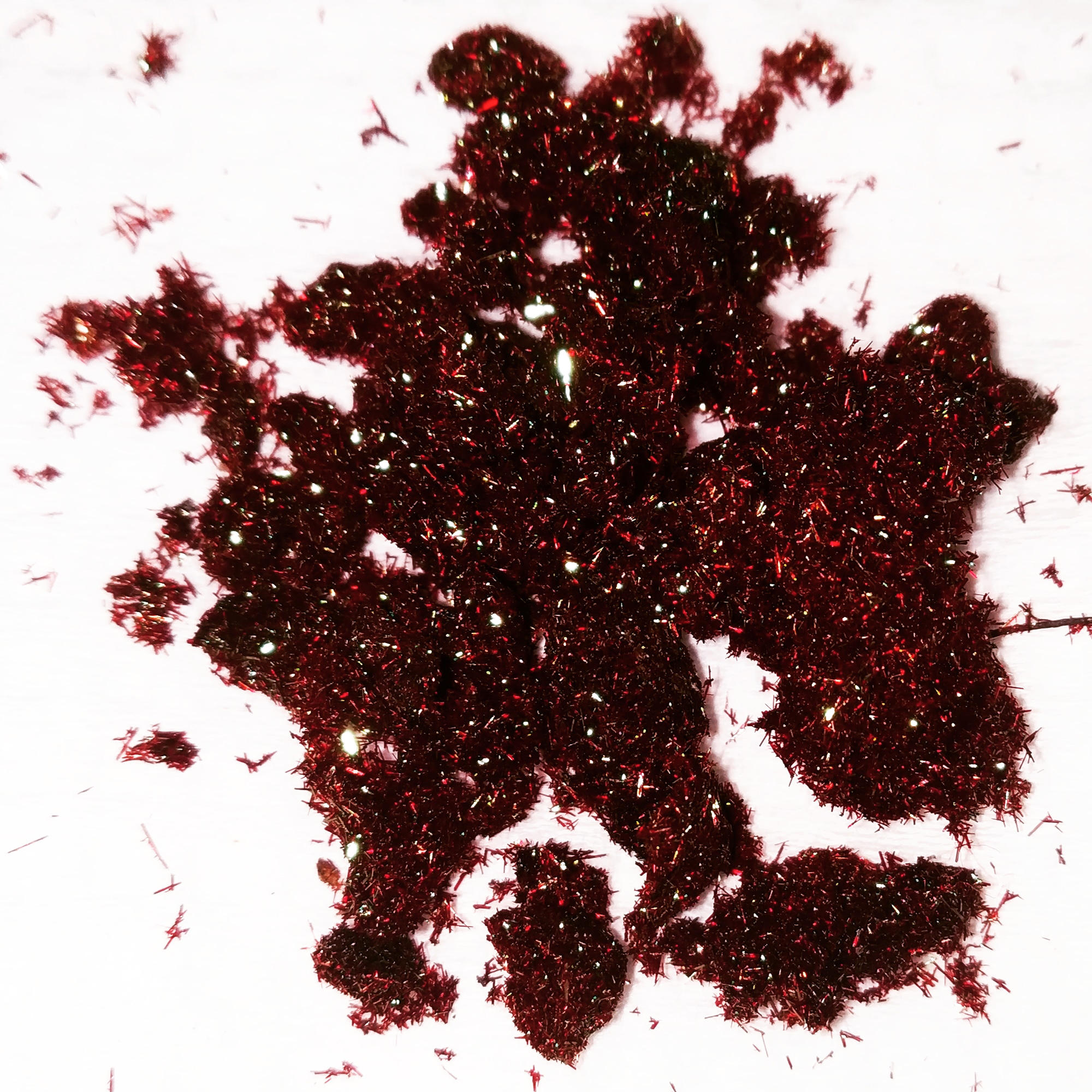 This is the ruby red crystals of Ammonium Tetrathiomolybdate formed by passing Hydrogen sulfide gas through a concentrated solution of ammonium molybdate